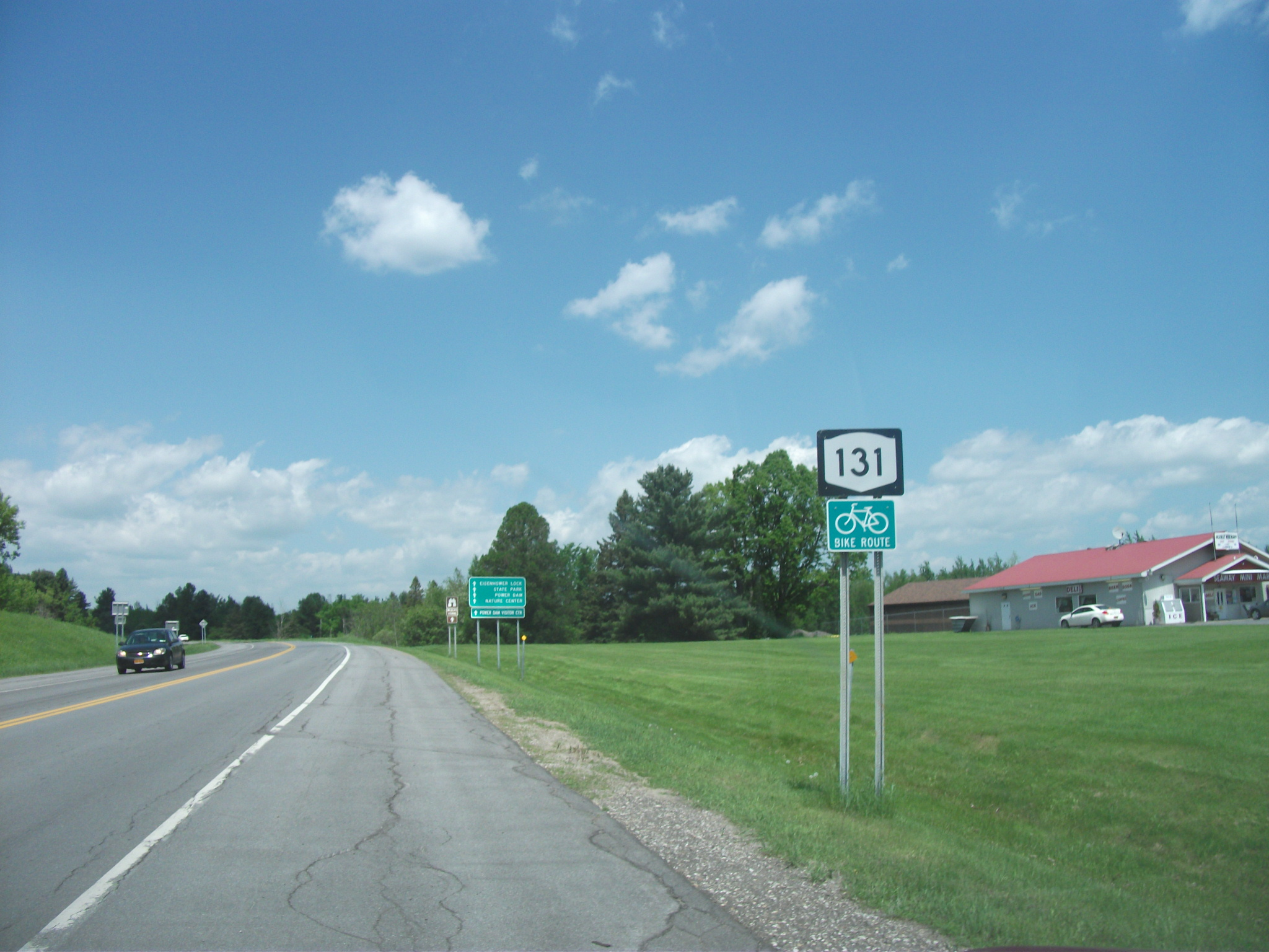 New York State Route 131 westbound heading through Massena away from New York State Route 37.